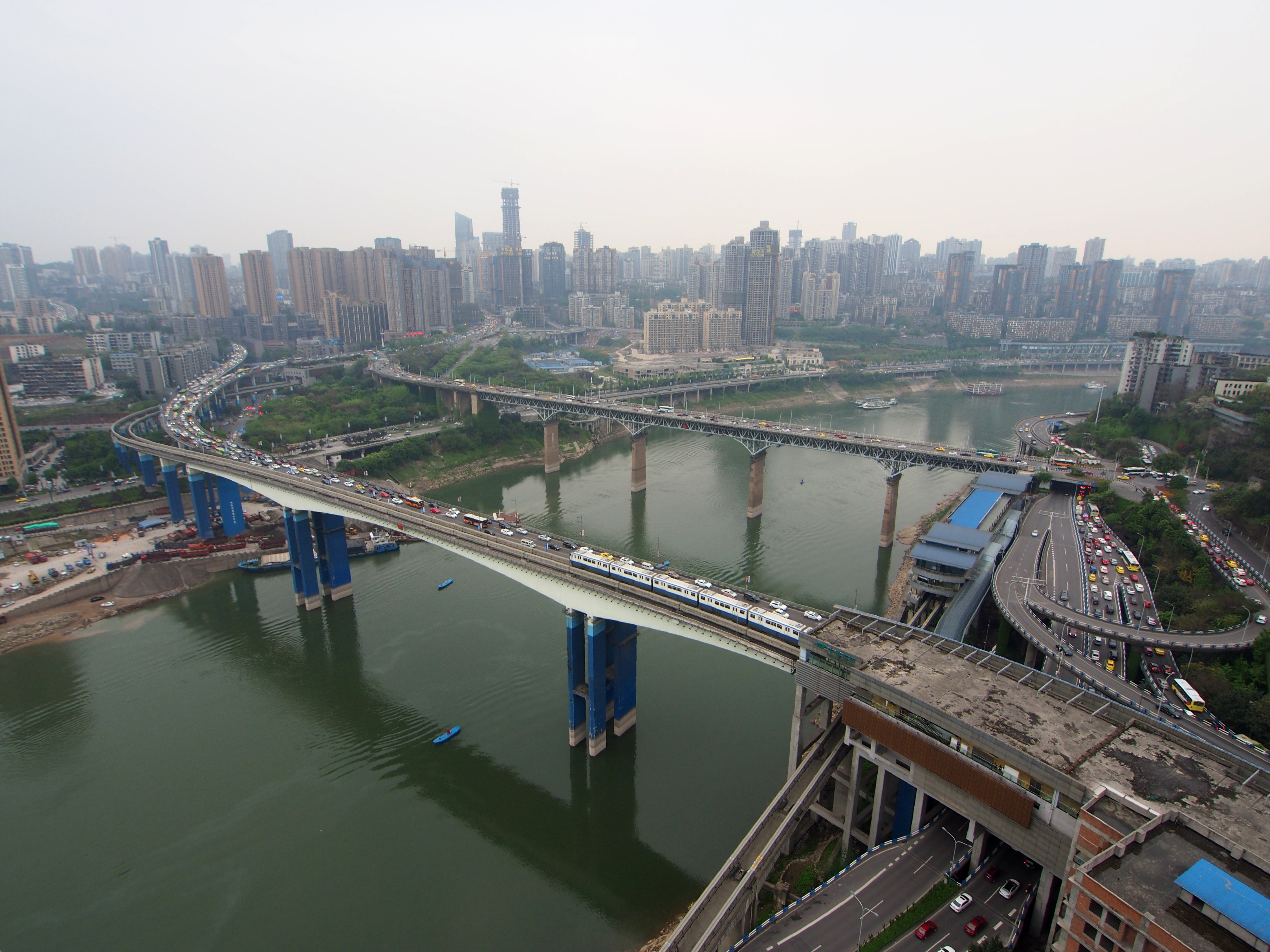 嘉陵江 - Jialing River - 2015.04